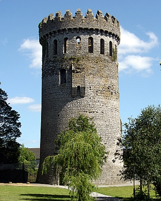 Gramscis cousin 11:14, 12 July 2006 (UTC)